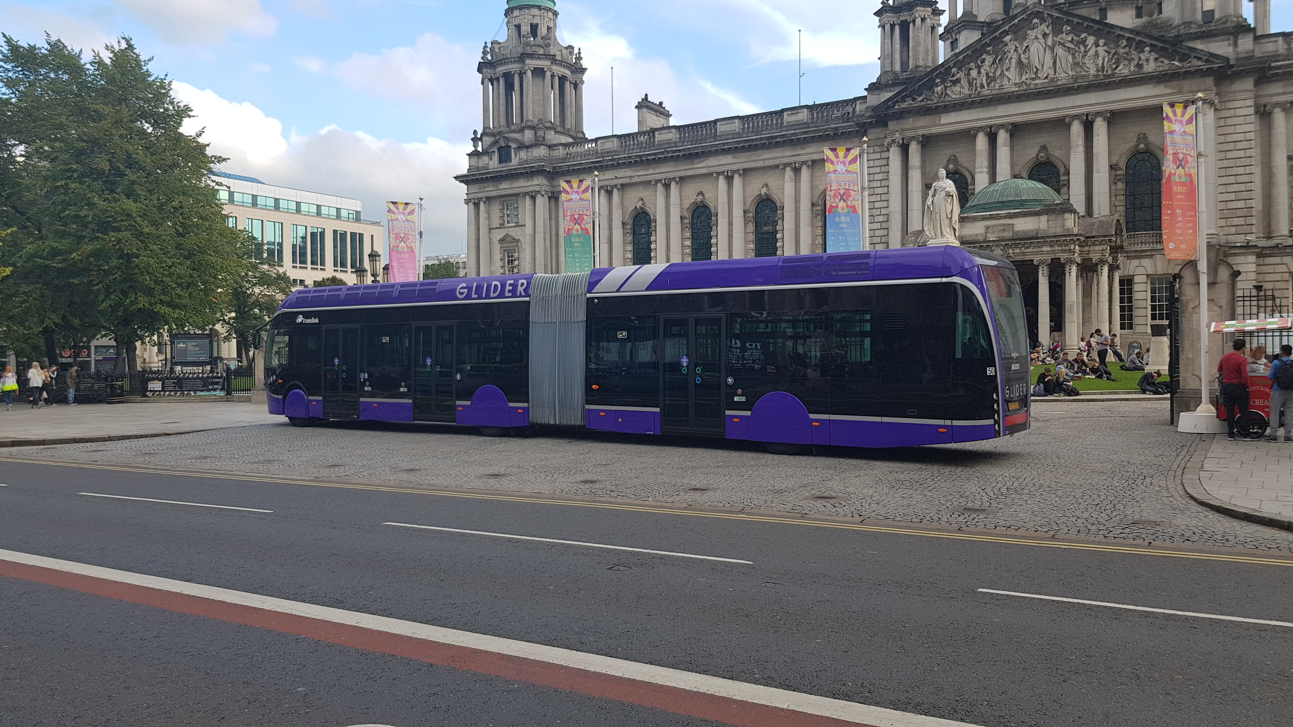 Van Hool Exqui.City 18m articulated (bendy) buses for Belfast, operated by Translink.